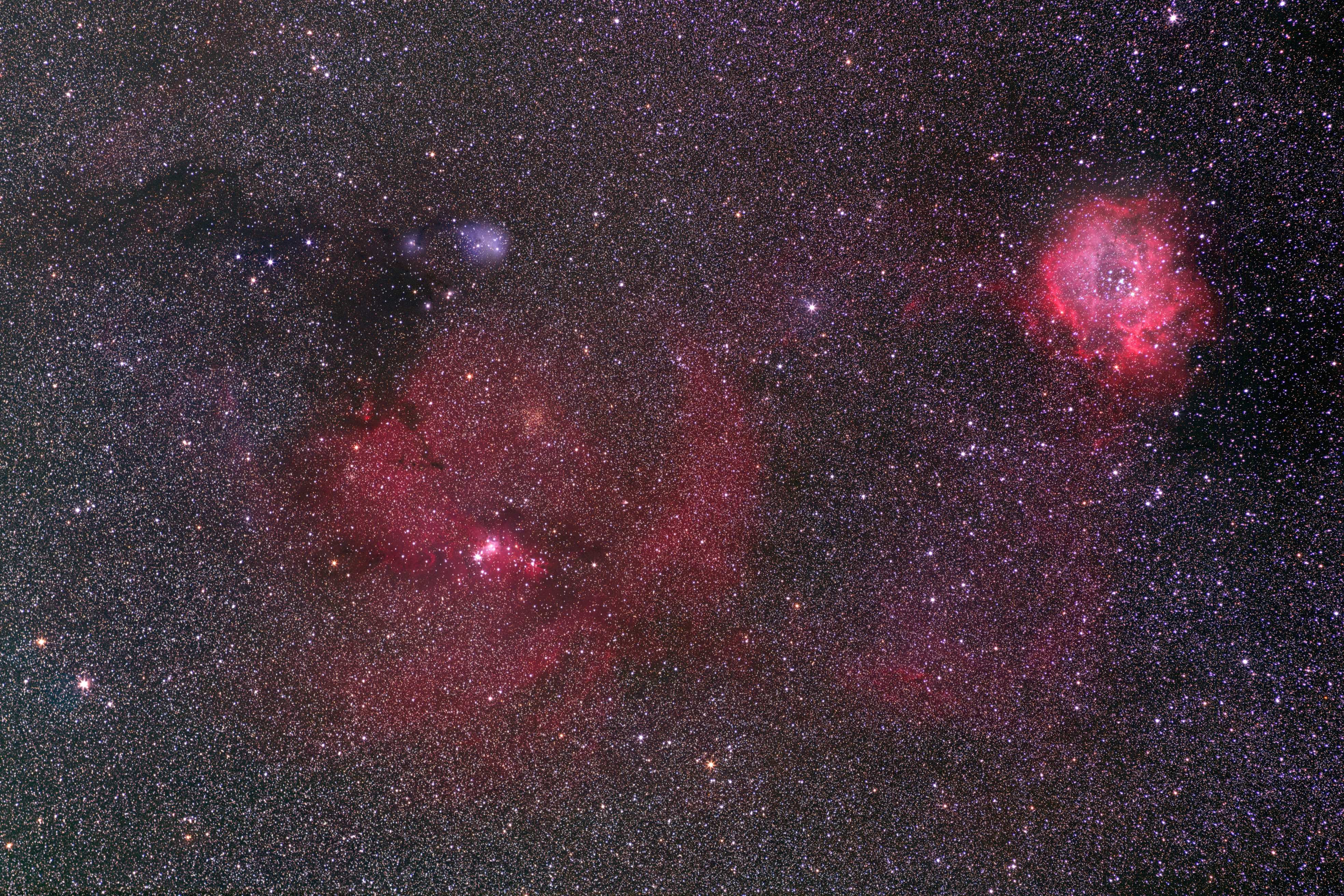 Wide field image taken by Stéphane Guisard (ESO) with a 200 mm lens from Paranal, showing the region of the sky with the NGC 2247 star forming complex and containing the Herbig Ae/Be object MWC 147. Visible in the image are the rich, colourful Cone nebula region (at the center-left of the image) and the Rosette Nebula (at the top right). They are both located in the Monoceros constellation, very close to the better known Orion constellation. The star MWC 147 is close to a dark nebula, in the top left part of the image, and belongs to an association of massive stars, the Monoceros OB1 association. The close-up reveals that MVC 147 is surrounded by some nebulosity. The image is a colour-composite based on exposures through R, V, B, and H-alpha filters, for a total exposure time of more than 16 hours.